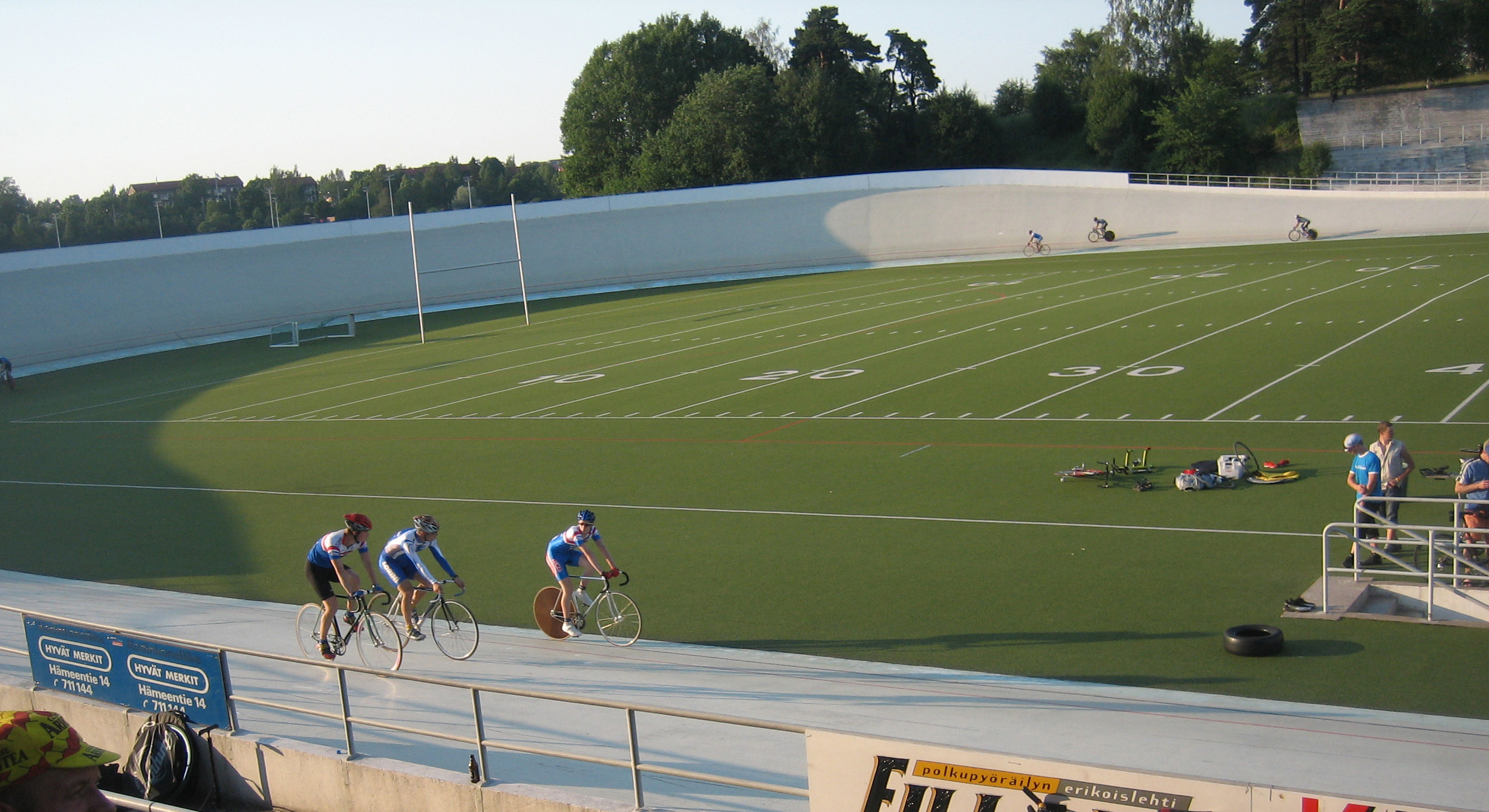 Day 1 of the European Cycle Messenger Championships 2006 at the Helsinki Velodrome, July 2006.